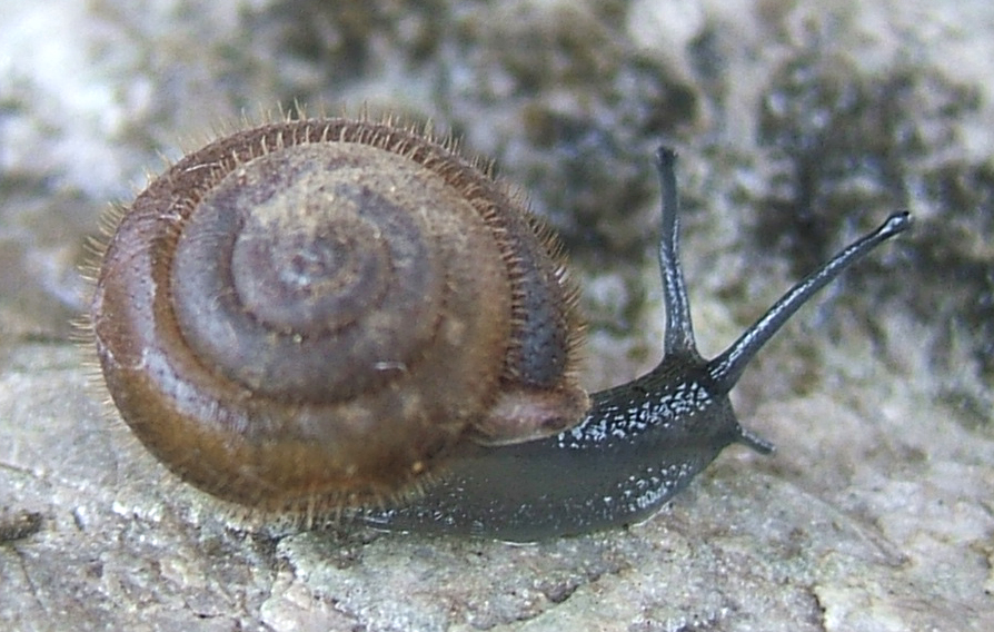 Photo of Isognomostoma isognomostomos. Locality: Germany: Bayern, N Walchensee village, 950 m. Date: 16-07-2007.